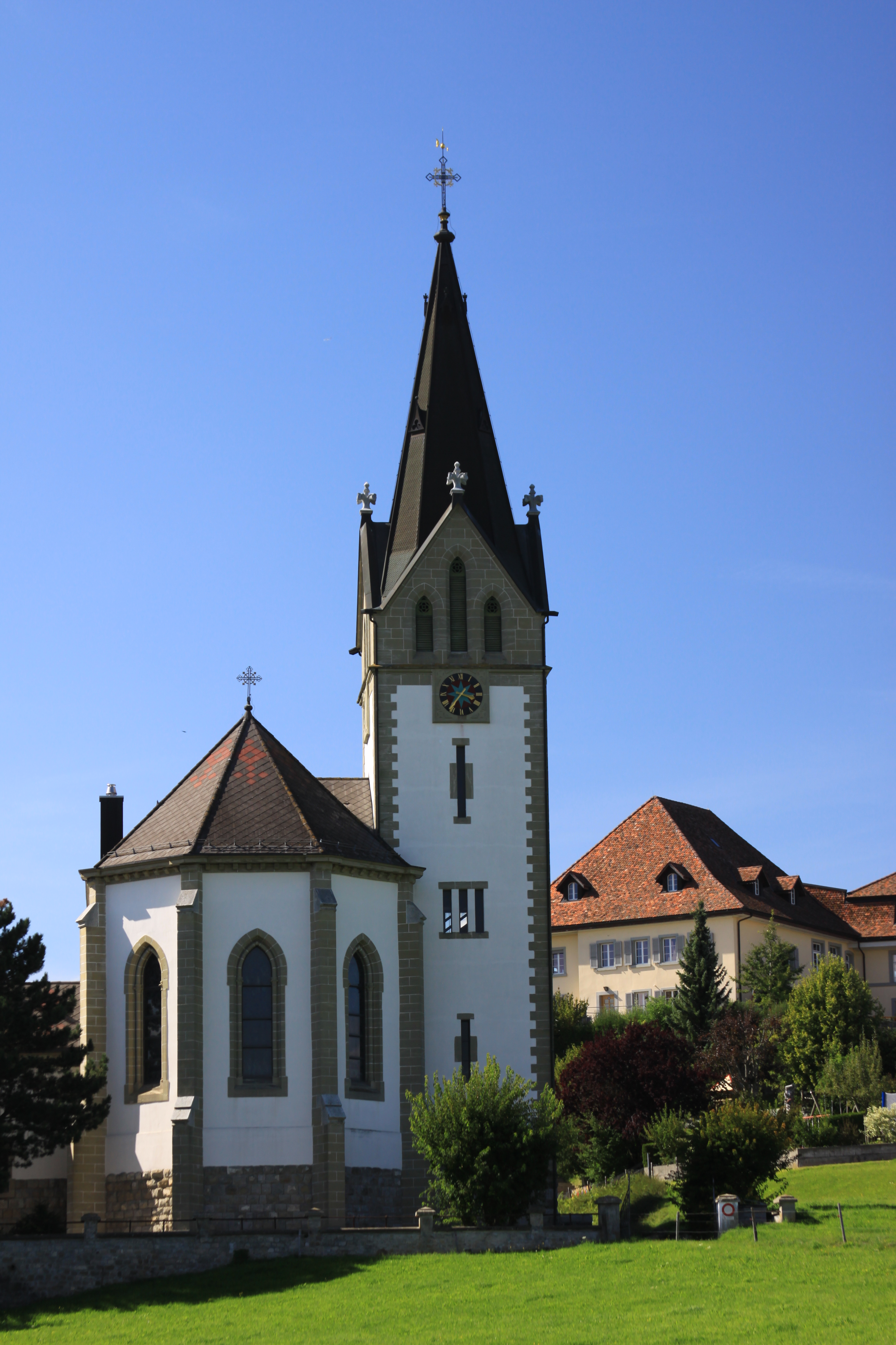 Built in 1905, the Parish Church of St. Michael, Heitenried, is a mixture of gothic and romanesque styles. The architects were Frédéric Broillet and Charles Albert Wulffleff and construction was performed by Firma Perler of Wünnewil. The exterior was restored in 1978 and the interior was renovated in 1981.